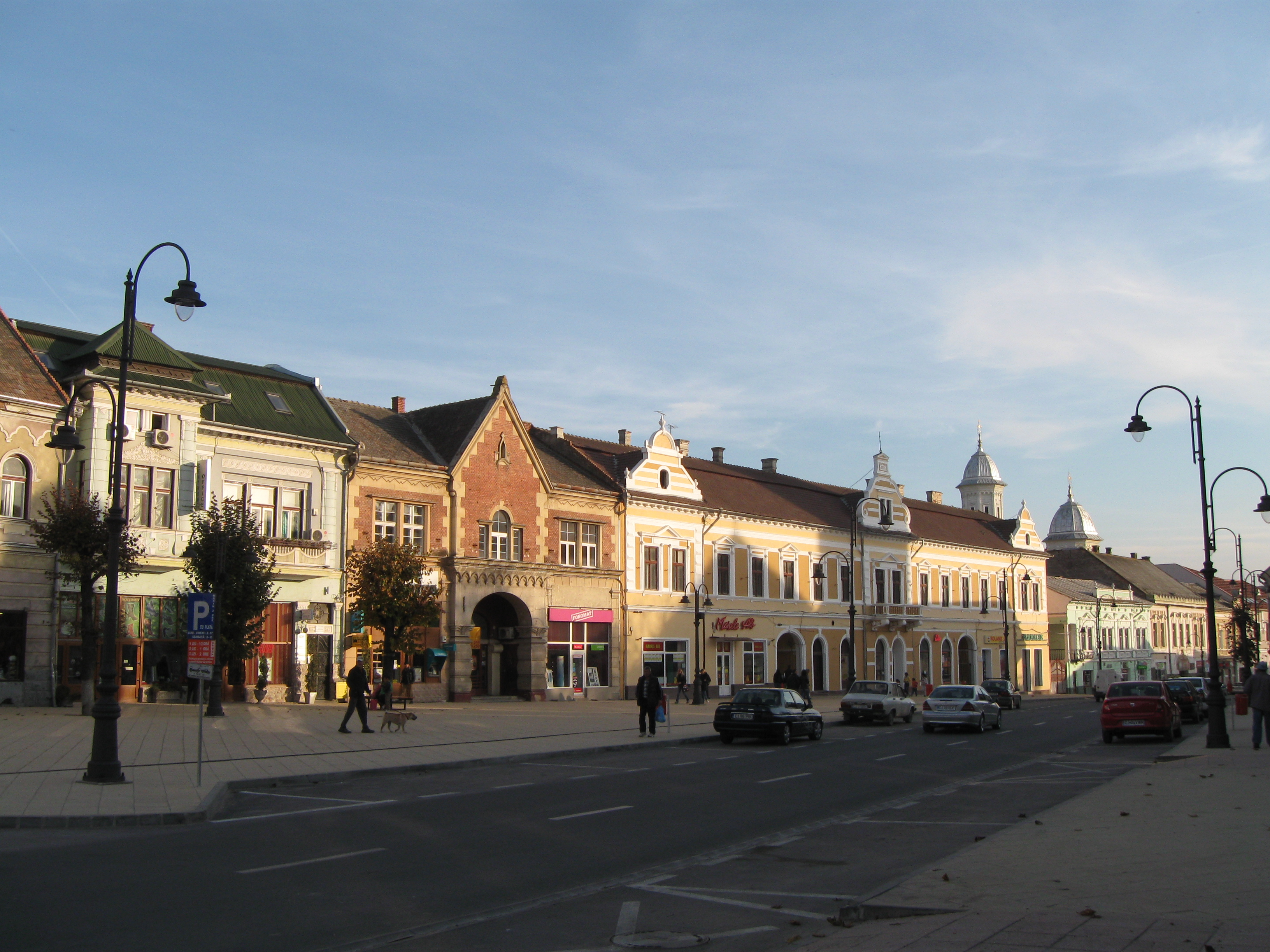 Inner city of Turda